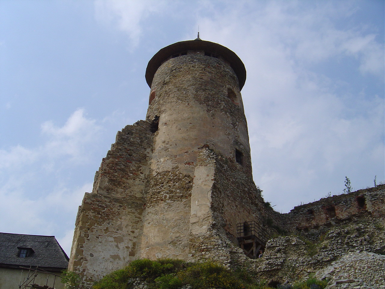 Main tower of Lubovna castle